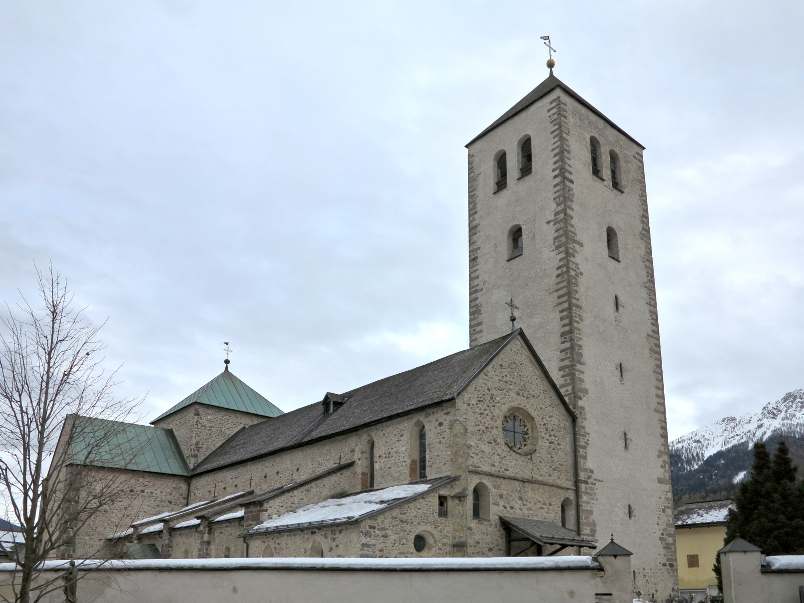 Village of Innichen, Monastery Church